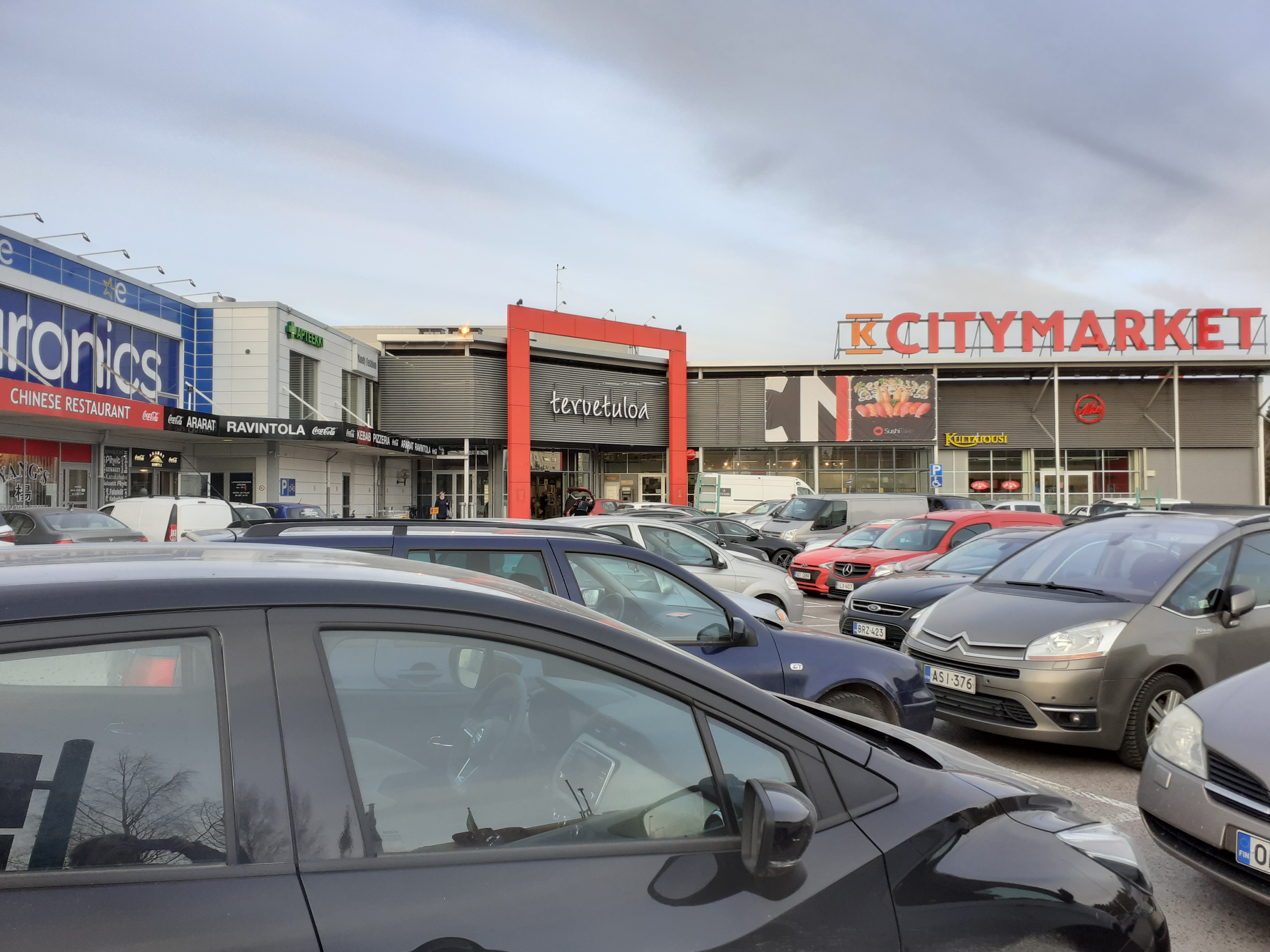 Exterior view of the Viiri Shopping Centre, Klaukkala.